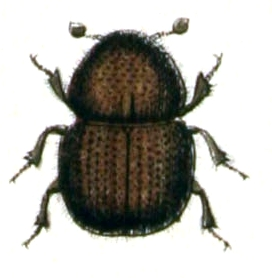 Xyleborus dispar, from Calwer's Käferbuch, Table 29, Picture 26. Taxonomy was updated to 2008, using mostly the sites Fauna Europaea and BioLib. Please contact Sarefo if the determination is wrong!